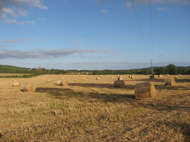 Bales at Flemingtown, Co. Meath In the valley of the Delvin River looking towards The Naul. Knockbrack hills in right distance.